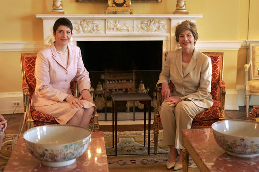 Laura Bush meets with Klara Dobrev, wife of Prime Minister of Hungary, in the Yellow Oval Room in the private residence of the White House Monday, June 6, 2005. White House photo.